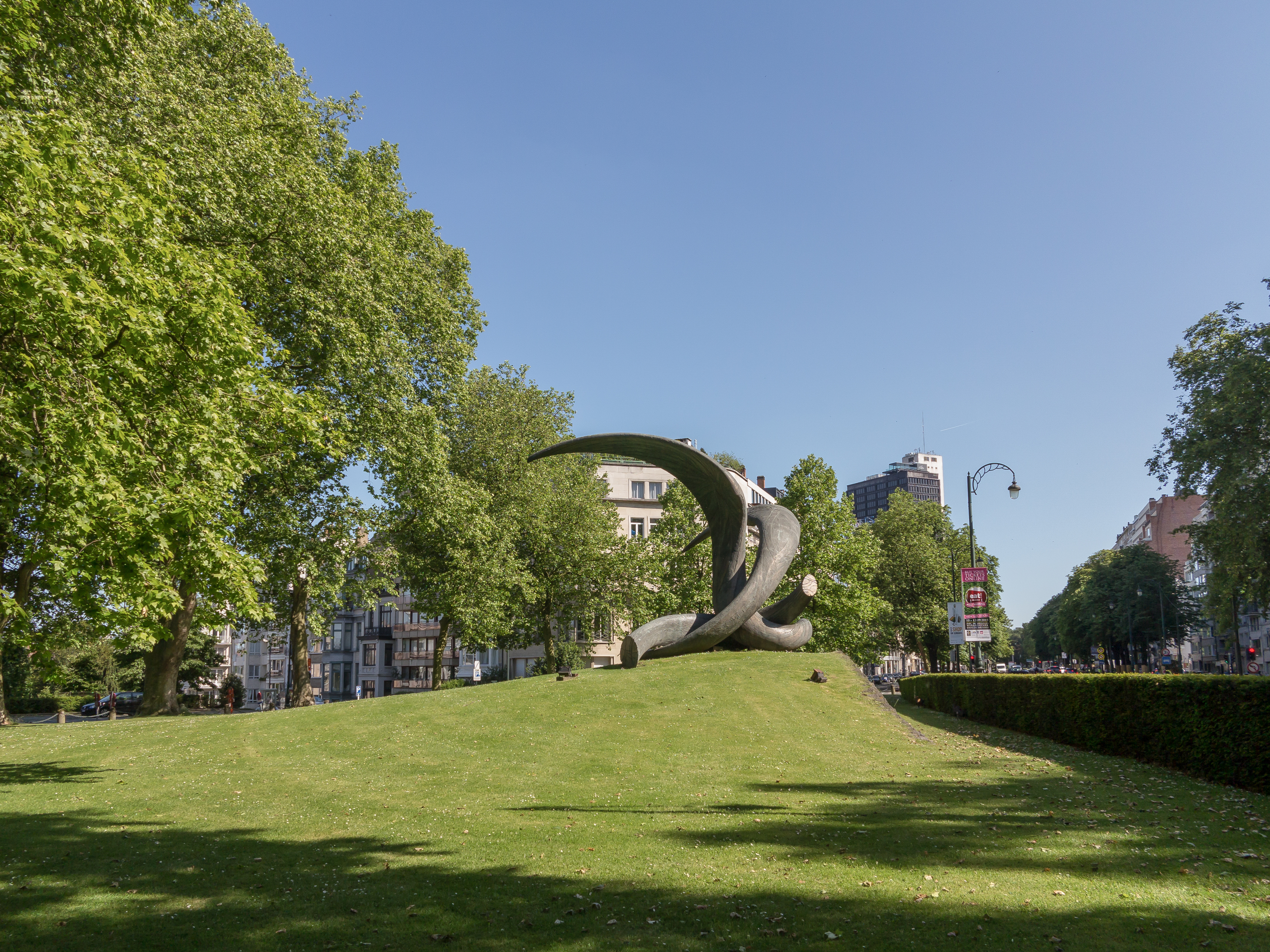 Brussels-Ixelles, sculpture Phoenix 44 at l'Avenue Louise